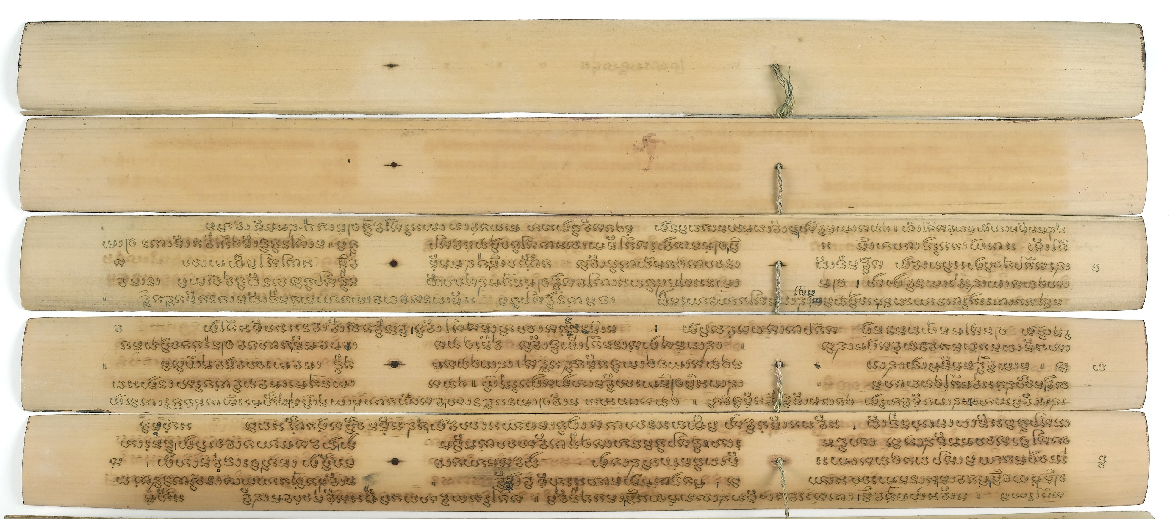 Thai 17 Asian Collection